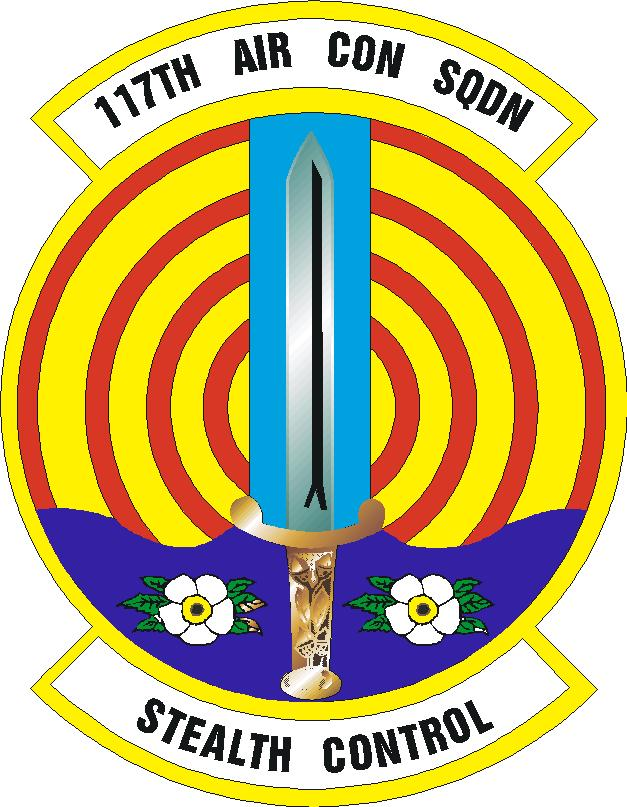 117th Air Control Squadron emblem